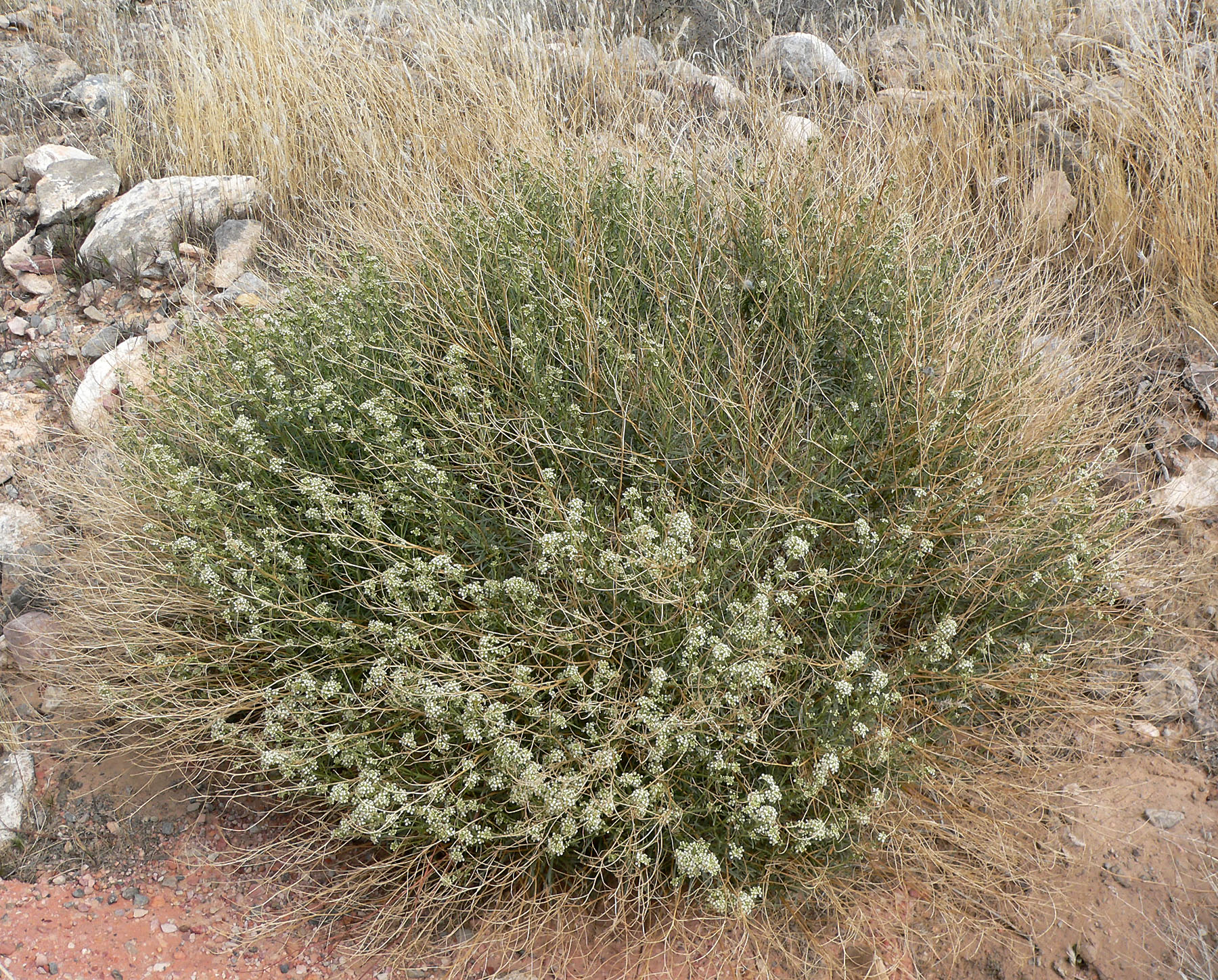 Lepidium fremontii in the Buffington Pockets area, Valley of Fire, southern Nevada